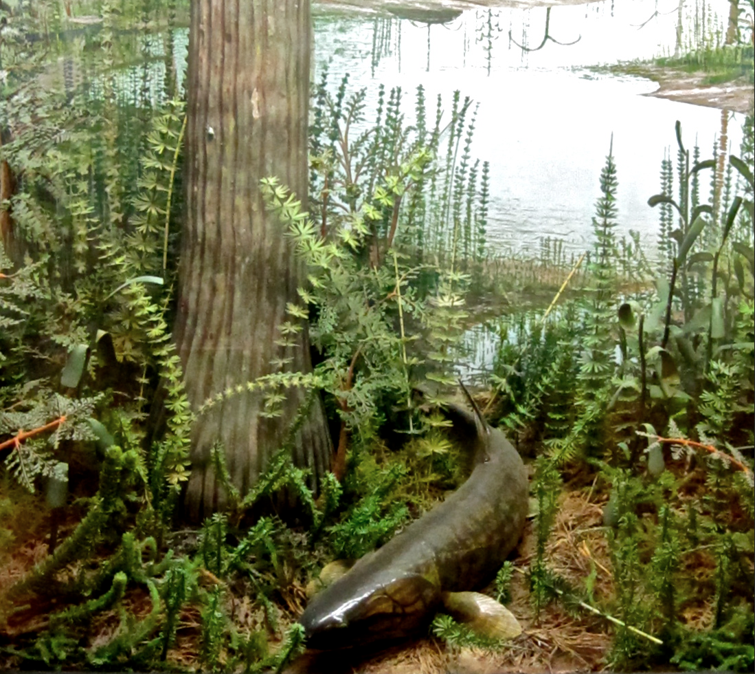 The delta deposits indicate a warm humid climate with seasonla rainfall producing dry periods and stagnant, vegetation-choked pools. These conditions favored the development of air-breathing freshwater fishes, the Sarcopterygii, from which all higher vertebrates evolved. In one division, the Crossopterygii, the fins have fleshy lobes at their bases. These were forerunners of the libs of terrestrial animals. Air-breathing fish with stout muscular fins, effective both in passage through thick aquatic vegetation and in short land journeys, would have a better chance for survival. The best known of such fish is Eusthenopteron seen here in the foreground.